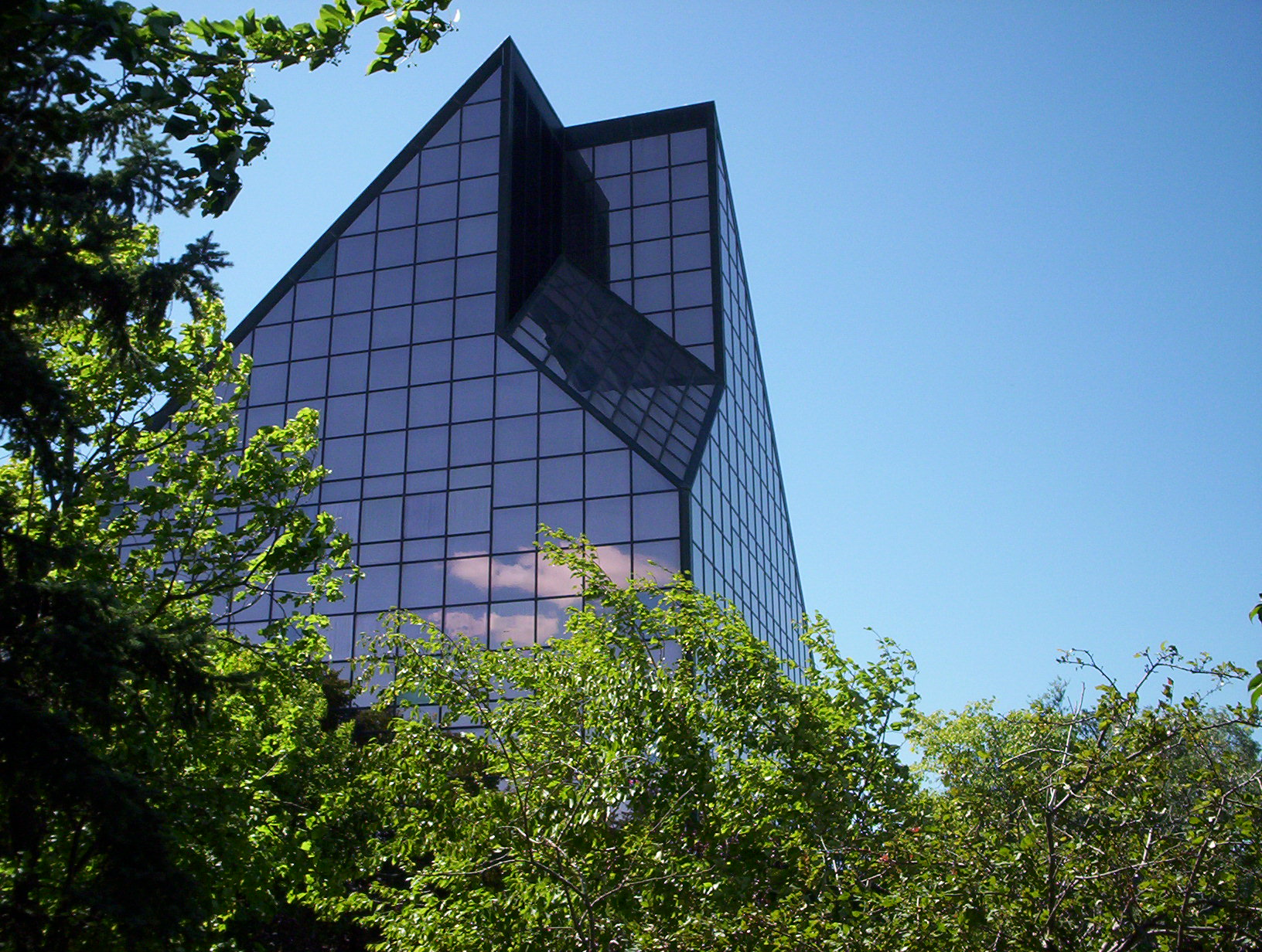 I (Bryan Wittal) took this photo of the Canadian Mint in Winnipeg, Manitoba in August 2005.